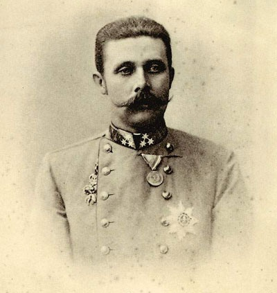 Portrait of Franz Ferdinand of Austria (1863-1914)